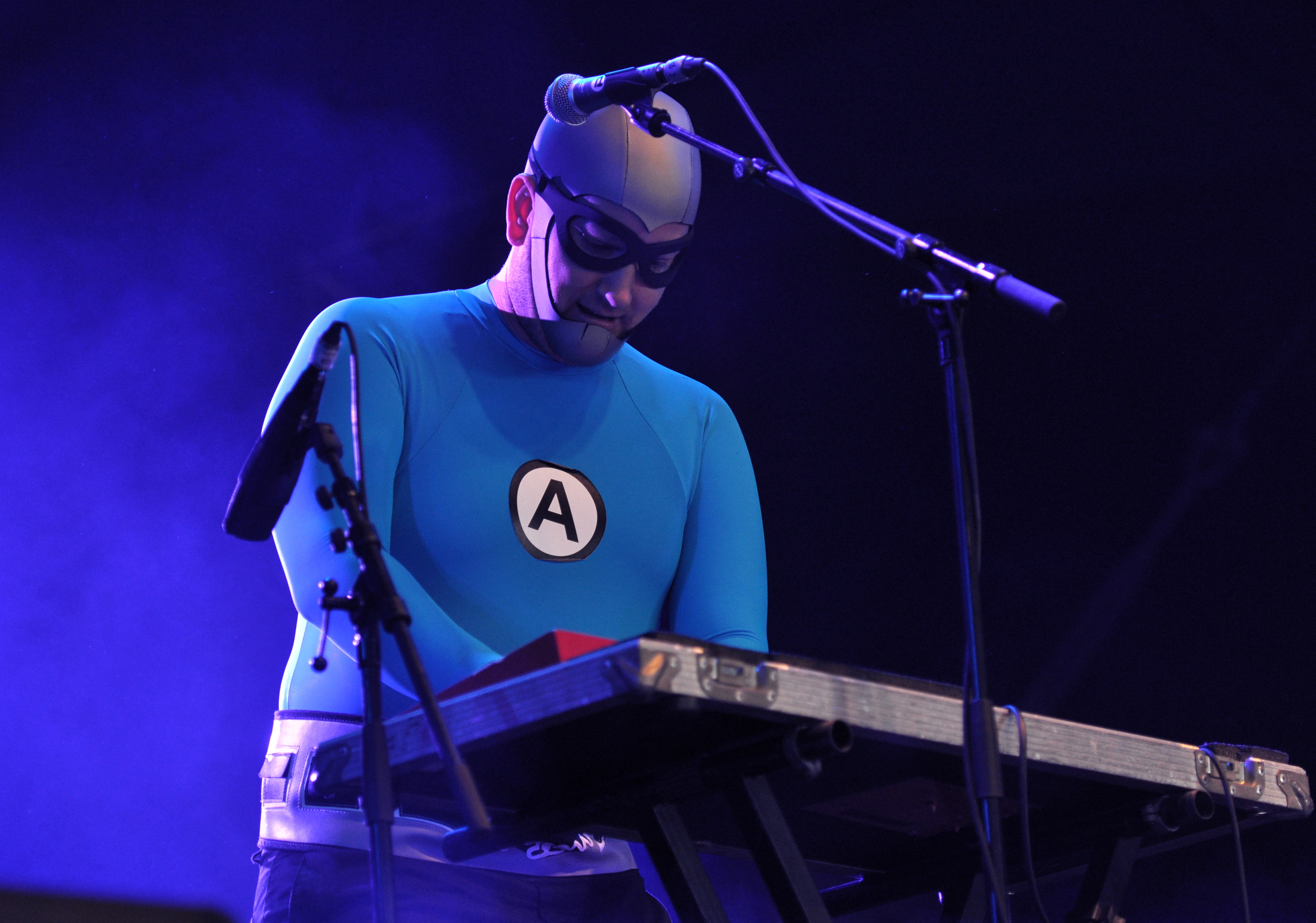 The Aquabats at Groezrock 2013